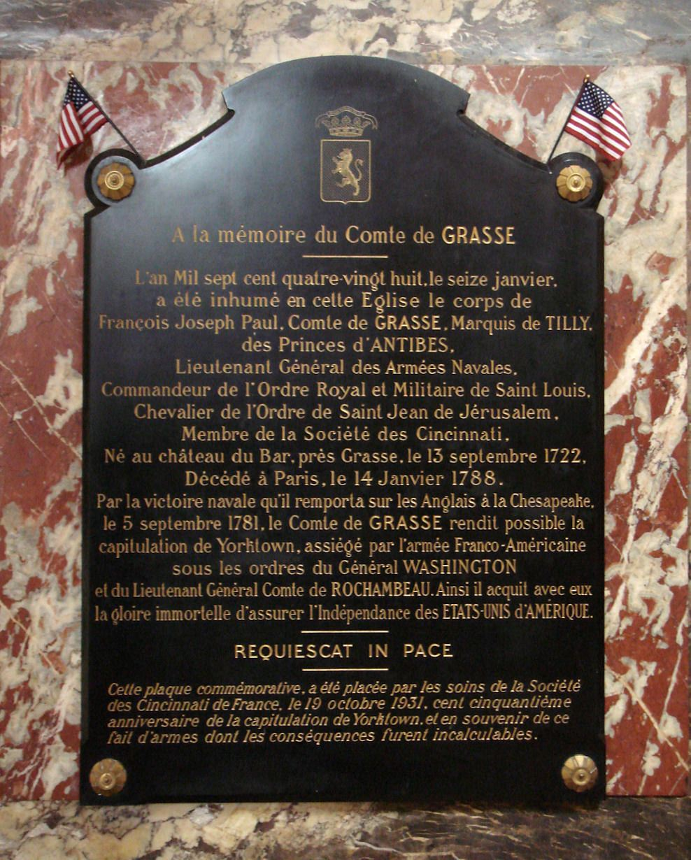 Epitaph of De_Grasse_in_Eglise Saint_Roch